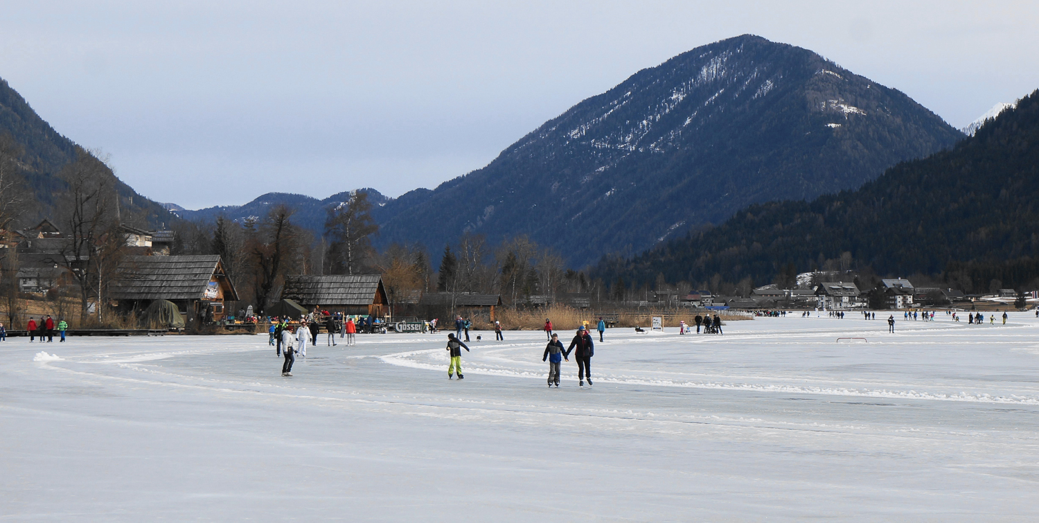 Ice skating, Nature reserve Weissensee, Carinthia, Austria, EU